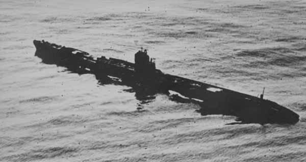 Submarine U-117, 21 June 1921, attacked by Navy planes.